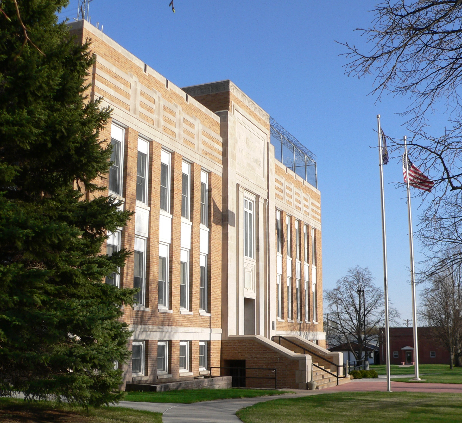 Holt County Courthouse in O'Neill, Nebraska; seen from the northwest. The Art Deco building was constructed in 1936, and is listed in the National Register of Historic Places.